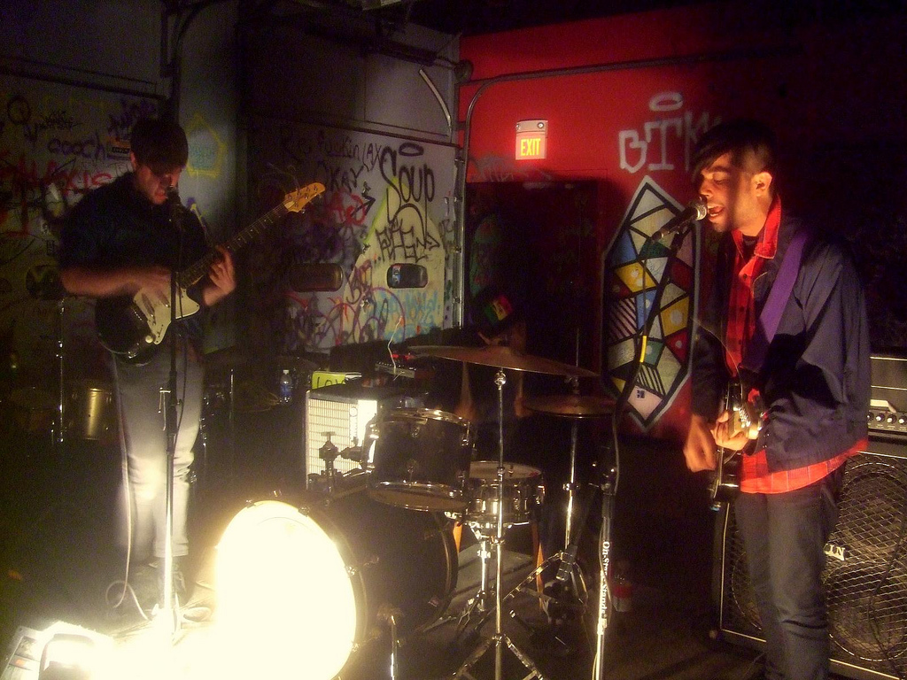 Abe Vigoda performing at the Bard College SMOG Club. [1]